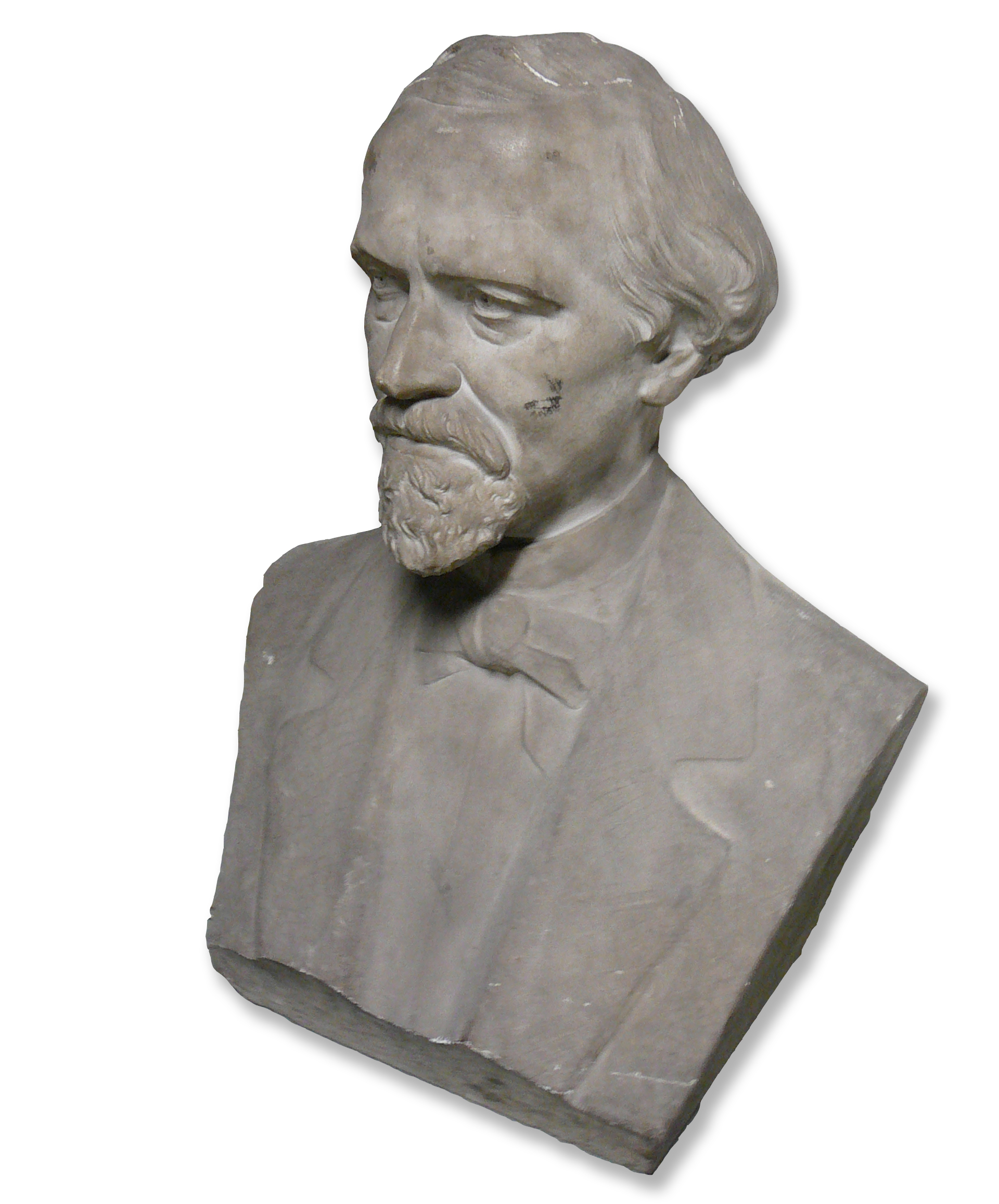 Statue of first curator of the Alsatic section